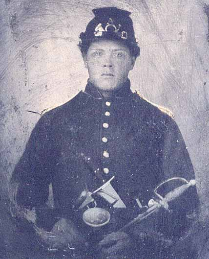 Photo of Union soldier